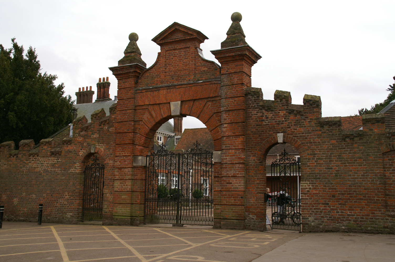 Forty Hall, Enfield, stable gateway built around 1650